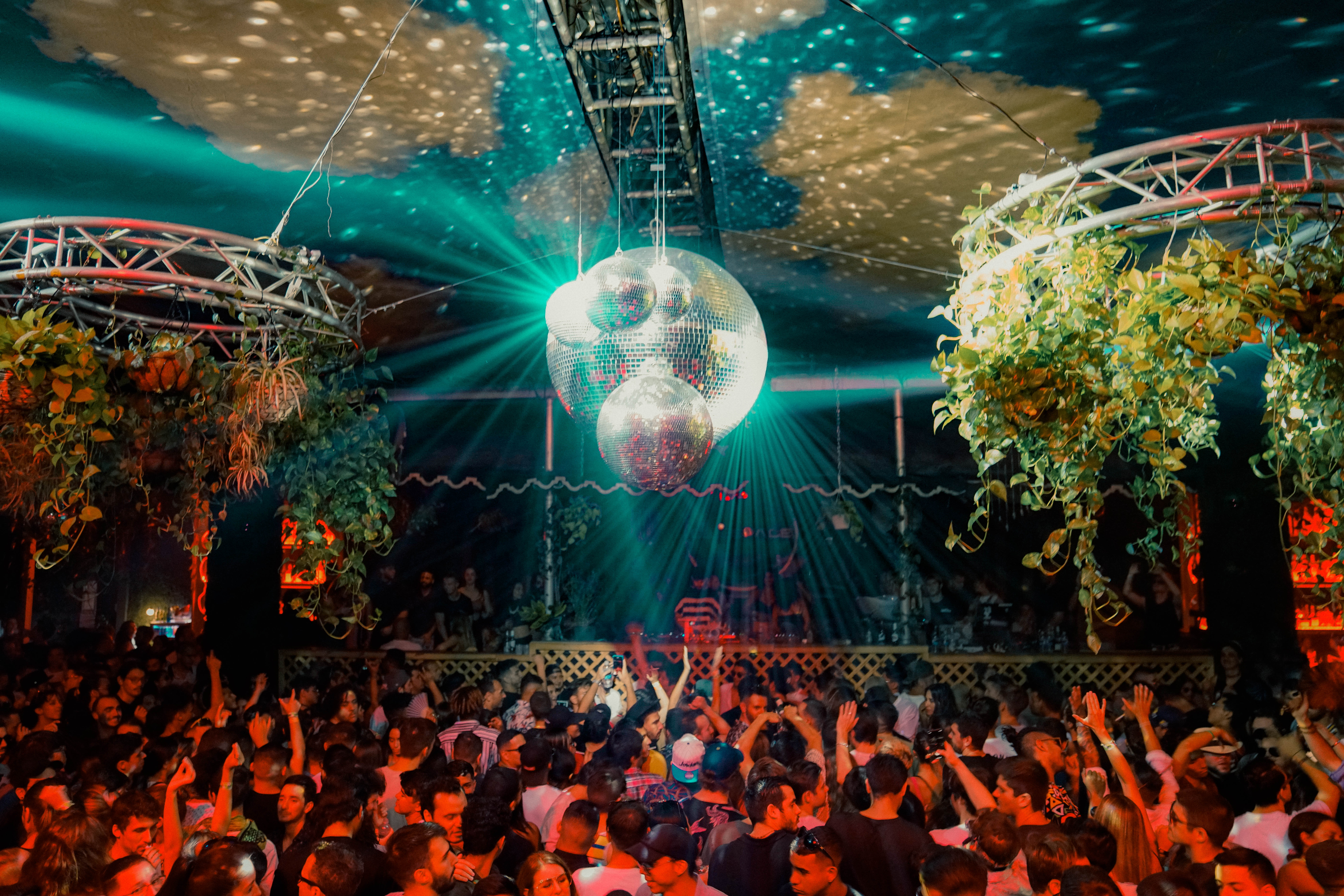 A picture on a Saturday evening on the Terrace at Space